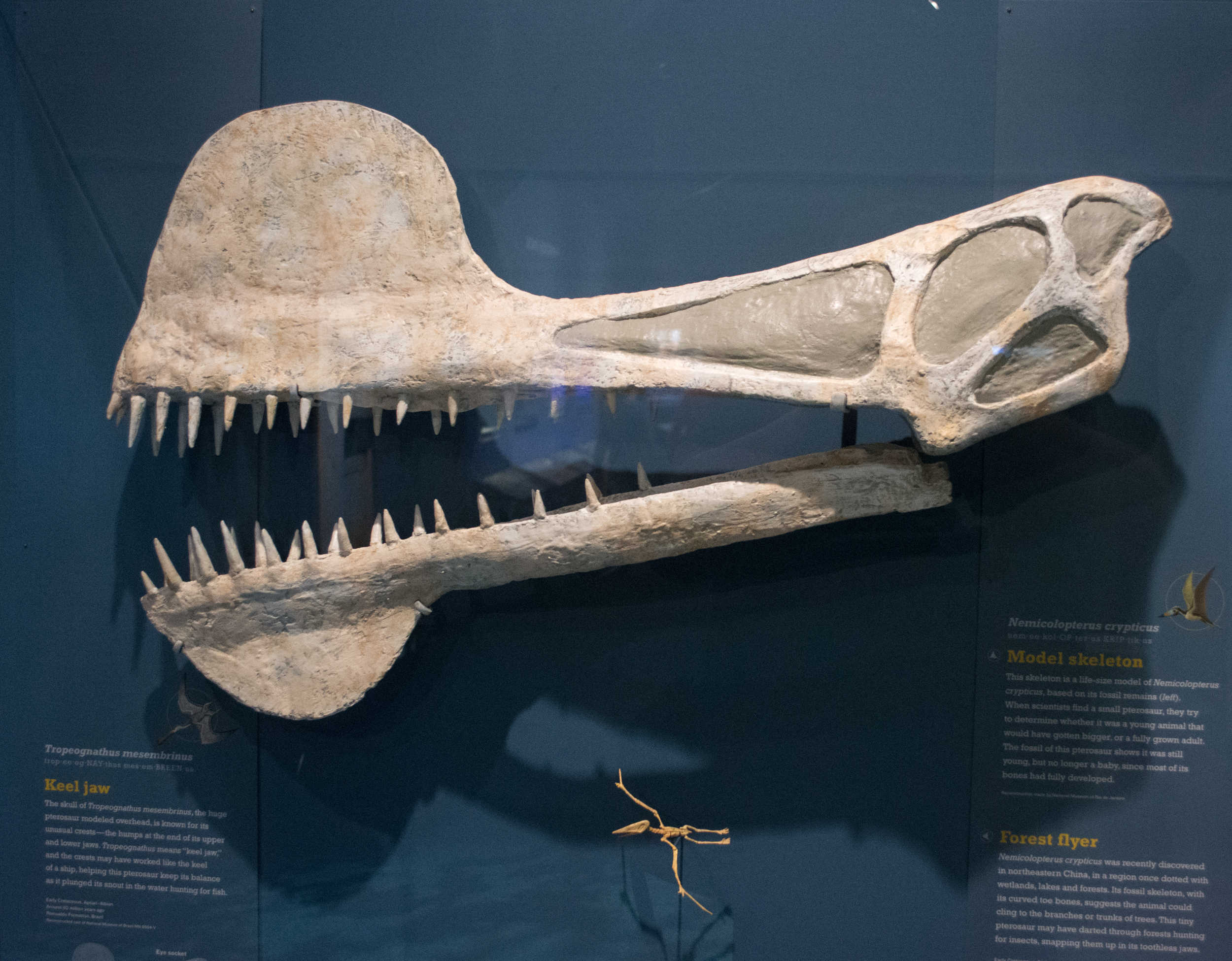 Cast of a fossil Tropeognathus mesembrinus skull. On display as part of the exhibit "Pterosaurs: Flight in the Age of Dinosaurs" at the Cleveland Natural History Museum in Cleveland, Ohio, in the United States. This fossil was found in the Romualdo Member of the Santana Formation in Brazil. It dates to about 80 million years ago, and is held by the National Museum of Brazil. This cast is a reconstruction of that fossil, and was made by the American Museum of Natural History.